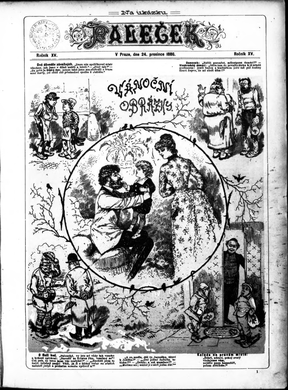 Czech Magazine Paleček 1886, title page